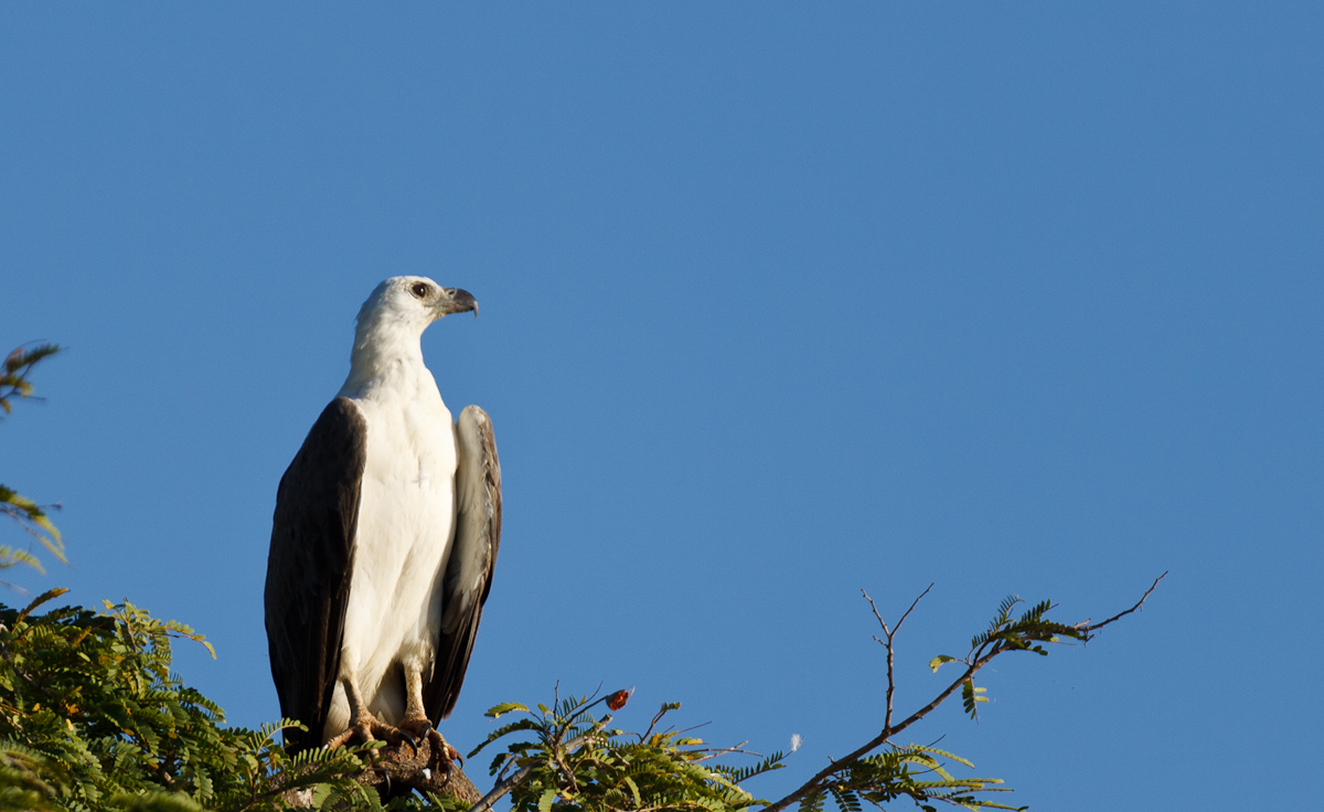 A White-bellied Sea Eagle at Yala National Park, Sri Lanka.